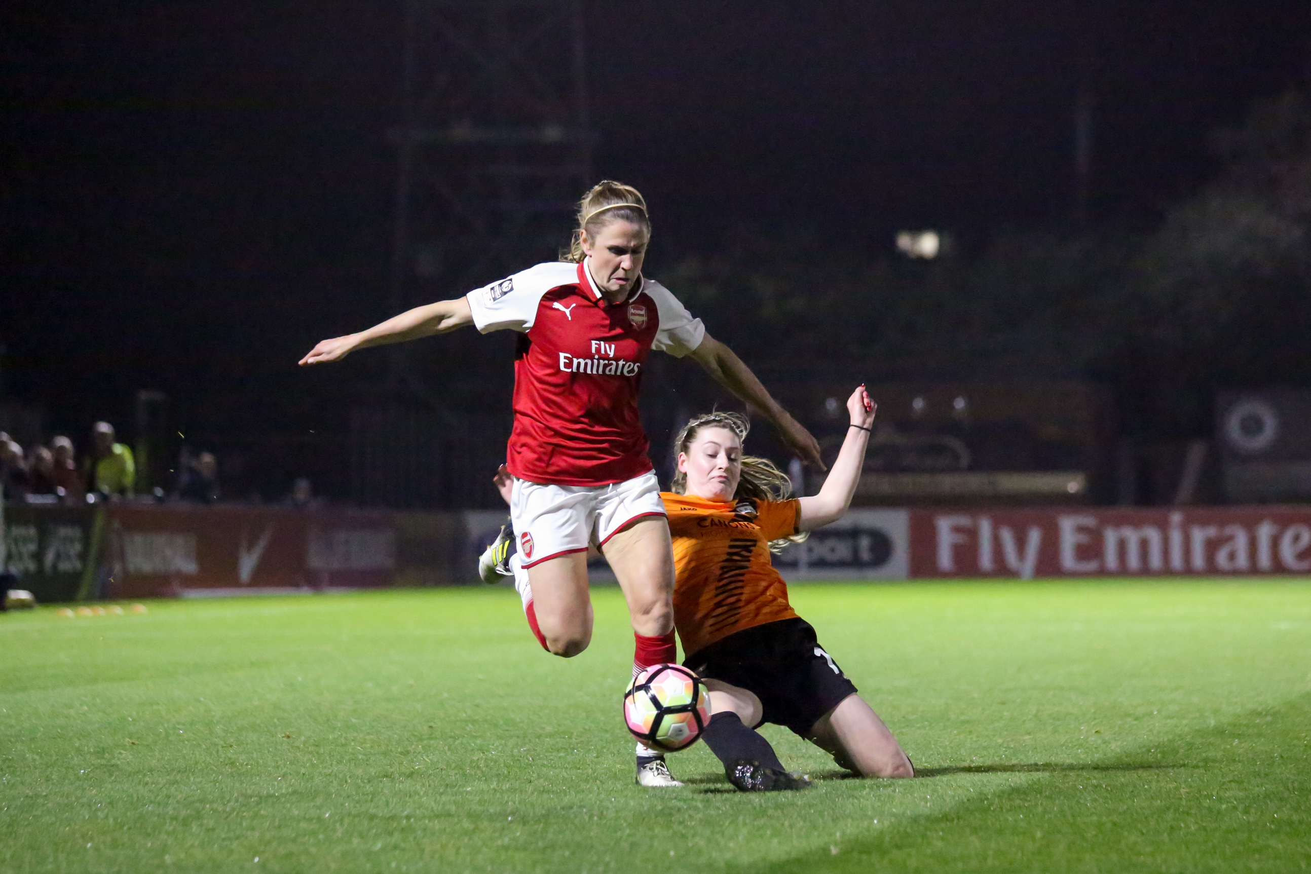 Arsenal WFC v London Bees, 12 October 2017 – London Bee's Katherine Huggins attempting to tackle the ball from Arsenal's Heather O'Reilly.